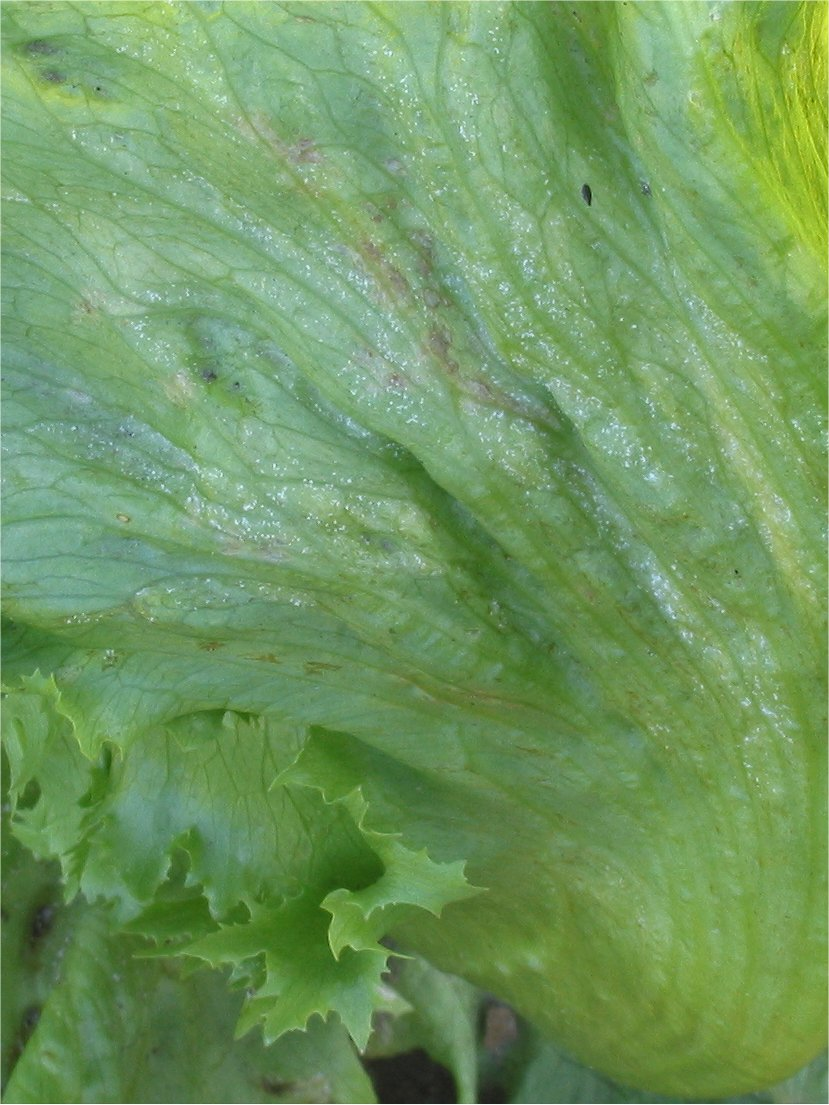 (IJssla met witaantasting) Iceberg with Bremia lactucae